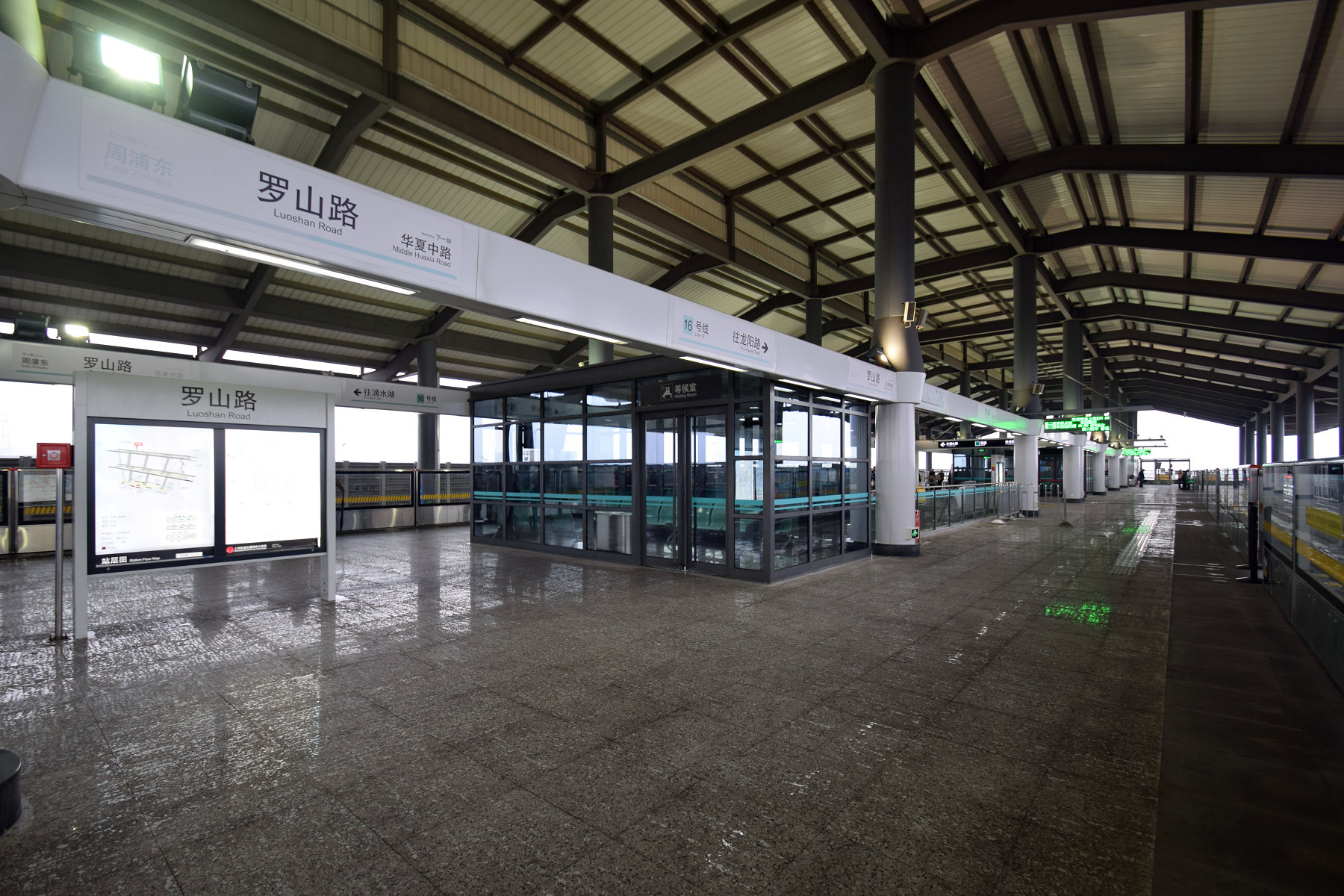 Line 16 Platform of Luoshan Road Station, Shanghai Metro